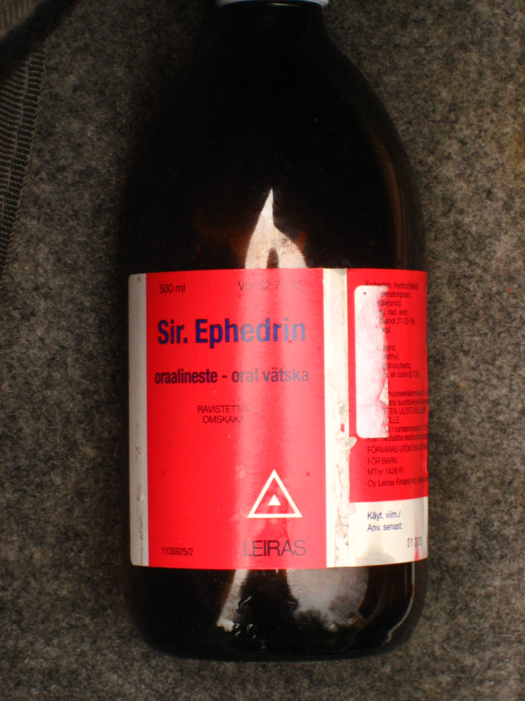 Sir Ephedrin robitussive medicine bottle.